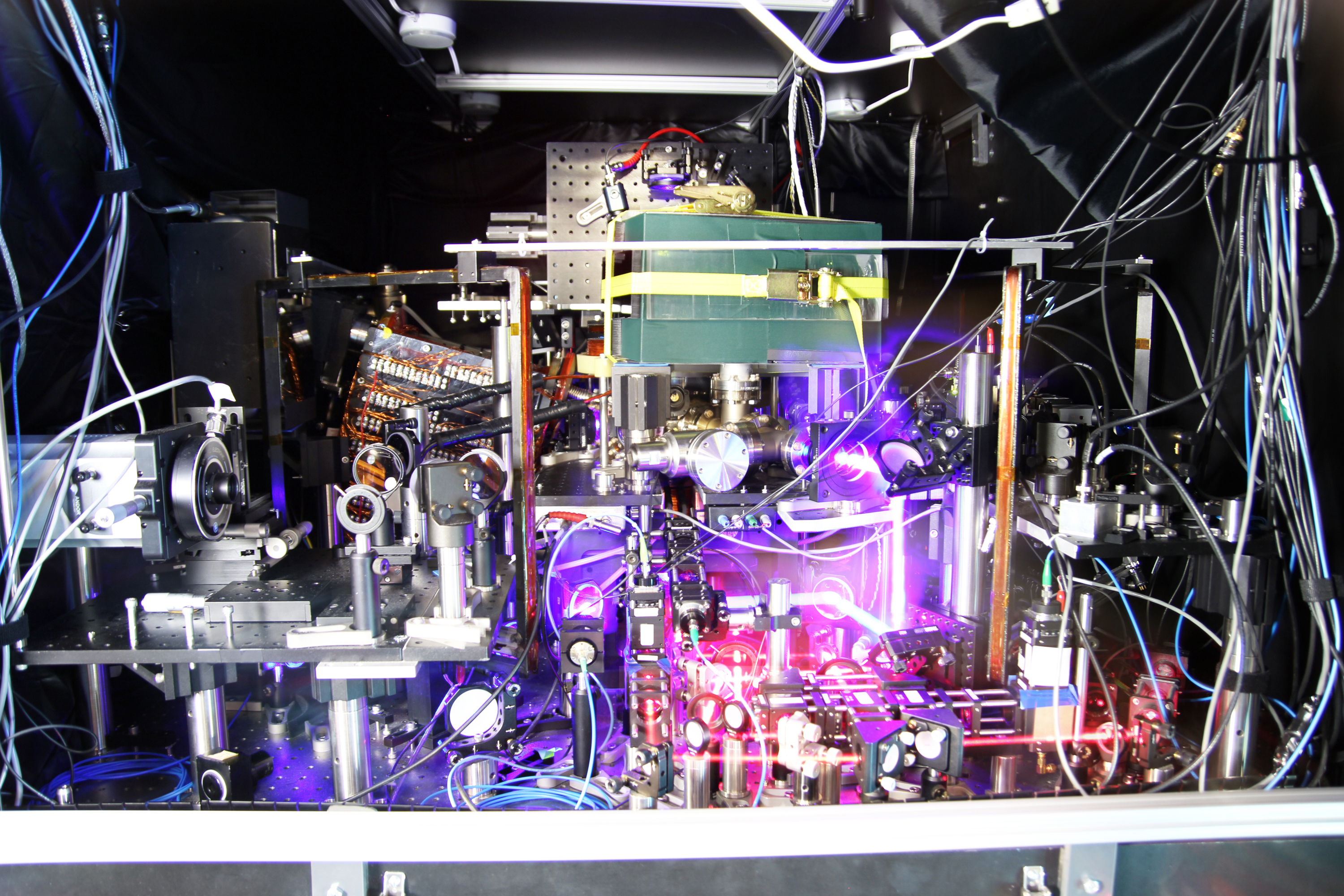 JILA's experimental atomic clock based on strontium atoms held in a lattice of laser light is the world's most precise and stable atomic clock. The image is a composite of many photos taken with long exposure times and other techniques to make the lasers more visible. Credit: Ye group and Baxley/JILA Disclaimer: Any mention of commercial products within NIST web pages is for information only; it does not imply recommendation or endorsement by NIST. Use of NIST Information: These World Wide Web pages are provided as a public service by the National Institute of Standards and Technology (NIST). With the exception of material marked as copyrighted, information presented on these pages is considered public information and may be distributed or copied. Use of appropriate byline/photo/image credits is requested.